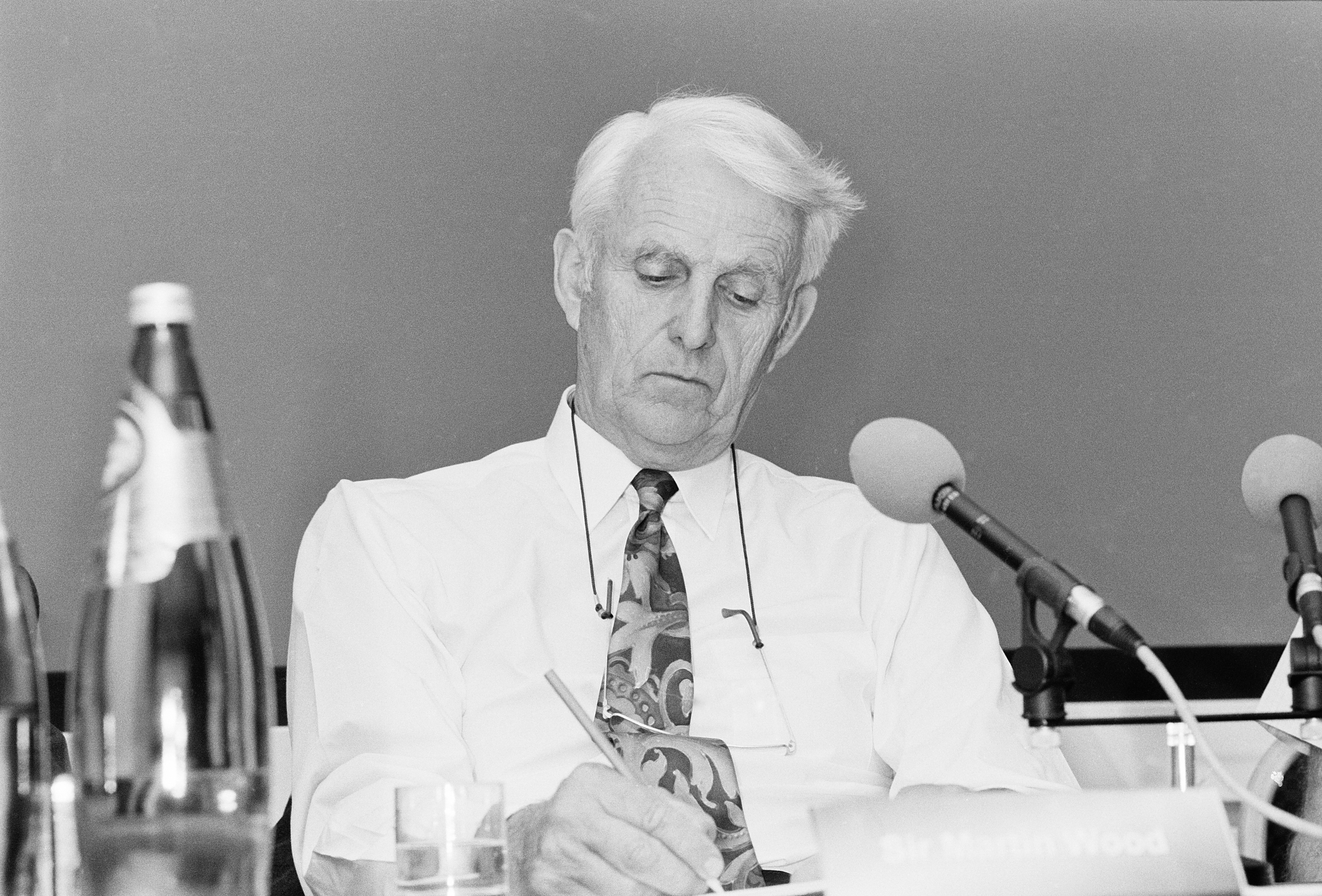 Taken at the Witness Seminar “Making the Body More Transparent: The Impact of Nuclear Magnetic Resonance and Magnetic Resonance Imaging” held by the History of Twentieth Century Medicine Group.